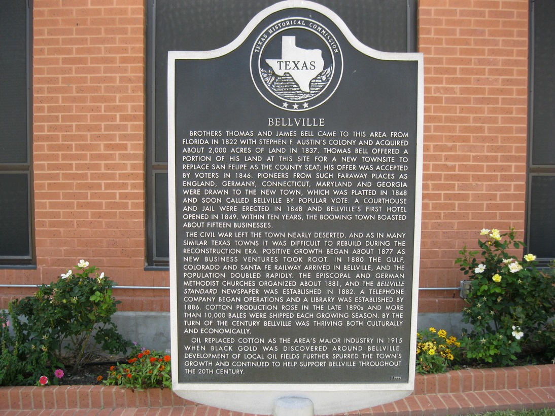 Photo shows state historical marker in front of the City Hall in Bellville, Texas. The marker gives a brief history of the city.